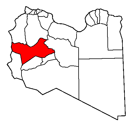 map of Libya with Wadi Al Shatii district highlighted